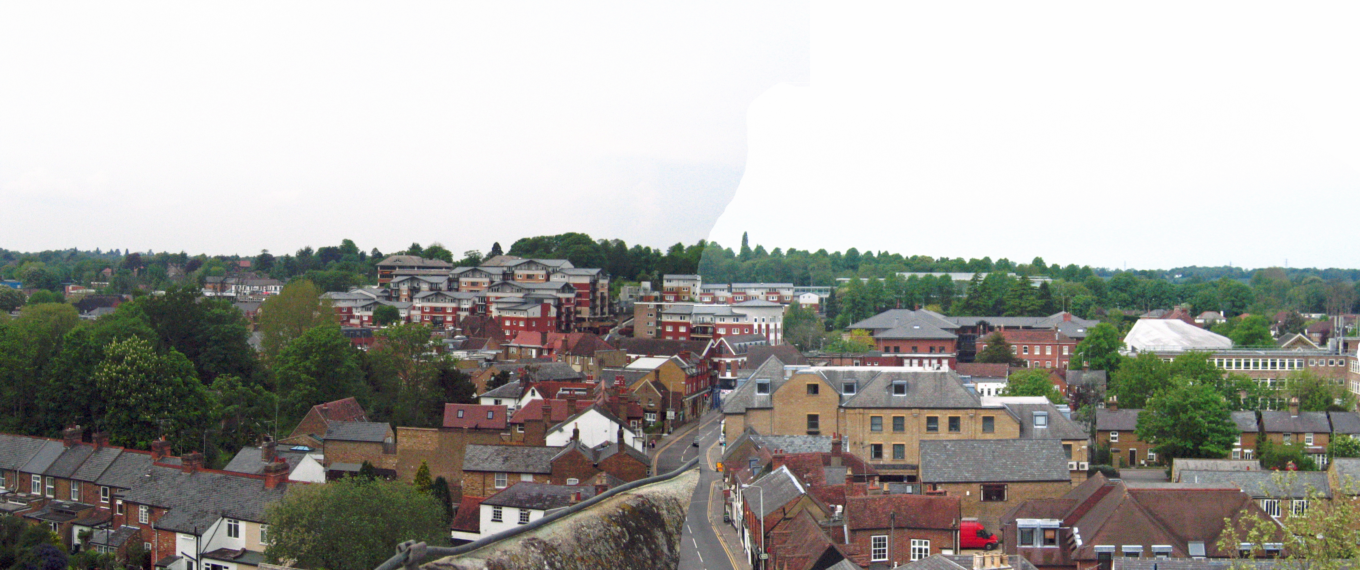 Central Rickmansworth, old and new